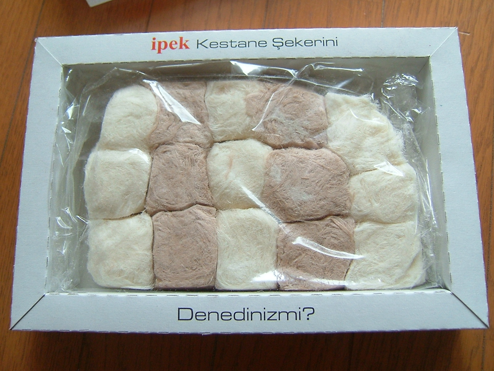 250 gram package (3 EUR) of keten helva. Found in Atatürk International Airport (Istanbul)